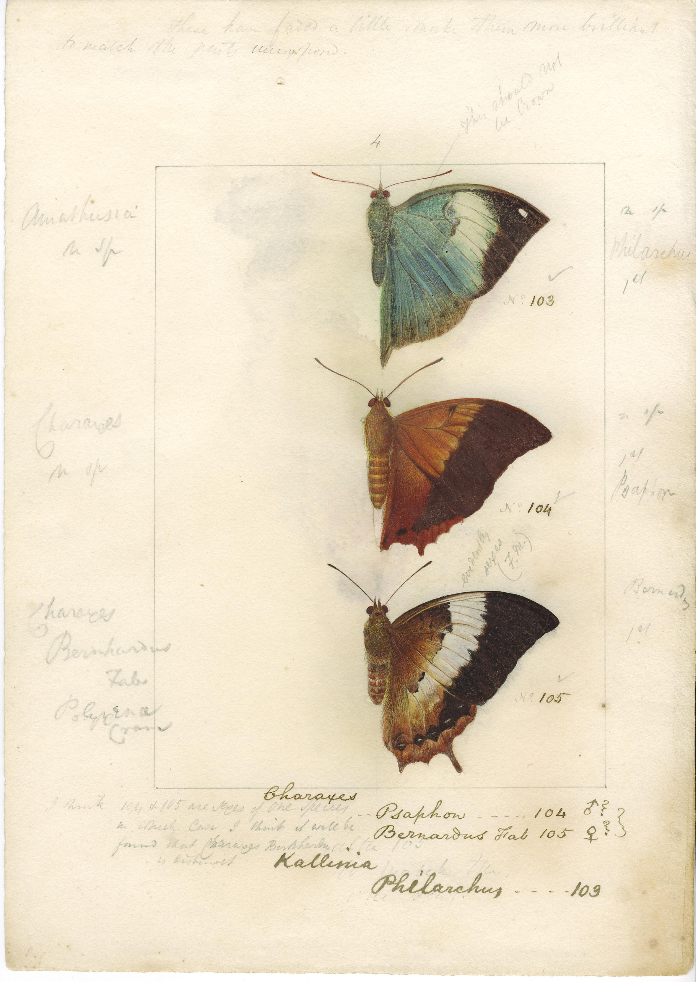 Robert Templeton Rhopalocera of Ceylon Watercolour intended for publication in Transactions of the Royal Entomological Society of London Marginal Identification notes by Francis Walker (after 1859 the date of publication of A catalogue of the lepidopterous insects in the museum of the Hon. East-India company by Thomas Horsfield and Frederic Moore of the East India Company. London, W.H. Allen and Co., 1857-59.) 104 Charaxes psaphon Westwood, 1848 105 Charaxes bernardus (Fabricius) 1793 103 Kallima philarchus (Westwood, 1848) But see note that 104 and 105 are sexes of the same species.